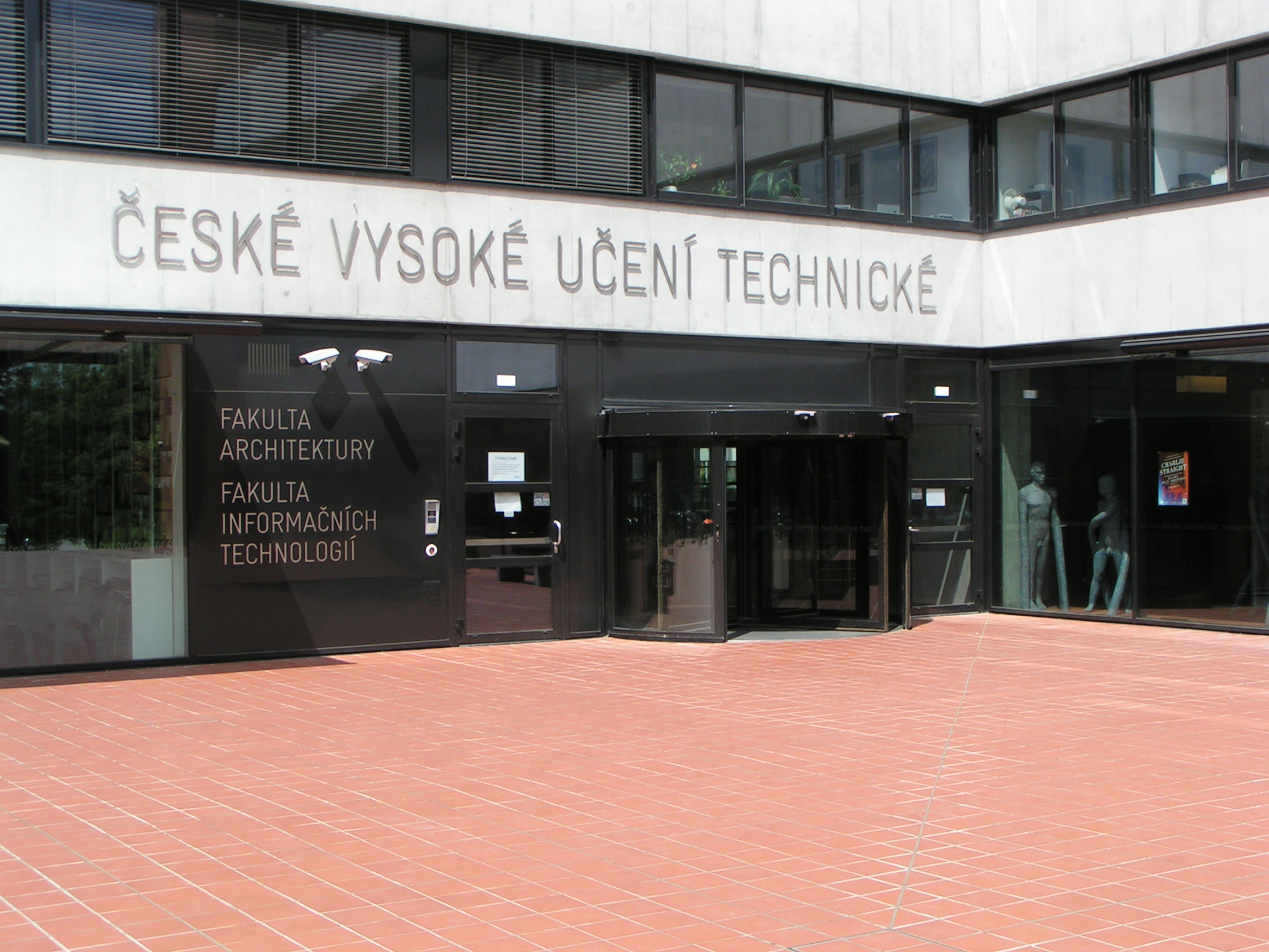 CTU - New Building Dejvice, Prague, an entrance